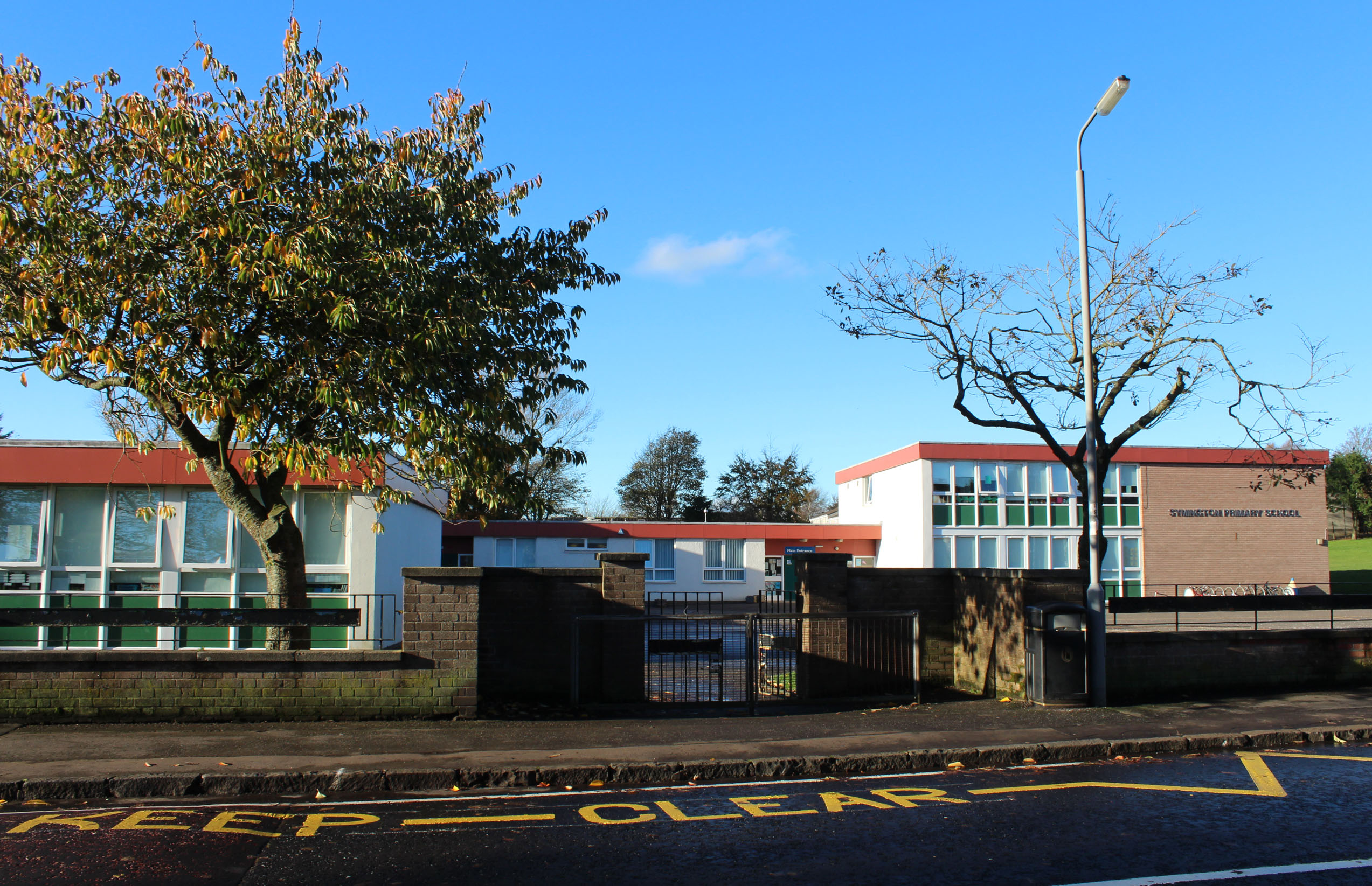 Entrance to Symington Schools